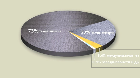 pie chart of dark matter and normal energy ratio taken from en.wikipedia